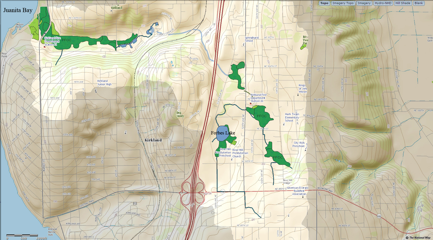 Section of National Map centered near downtown Kirkland, Washington, at Rose Hill about 47 41 30 N 122 11 00 W with wetlands overlay